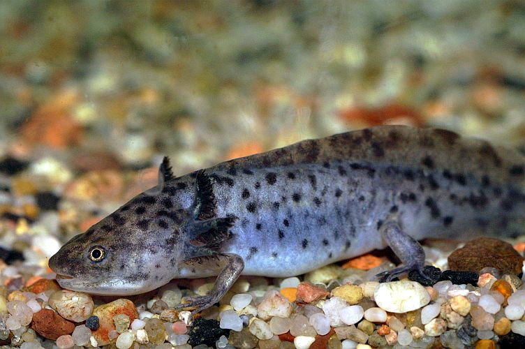 Axolotl Ambystoma mexicanum